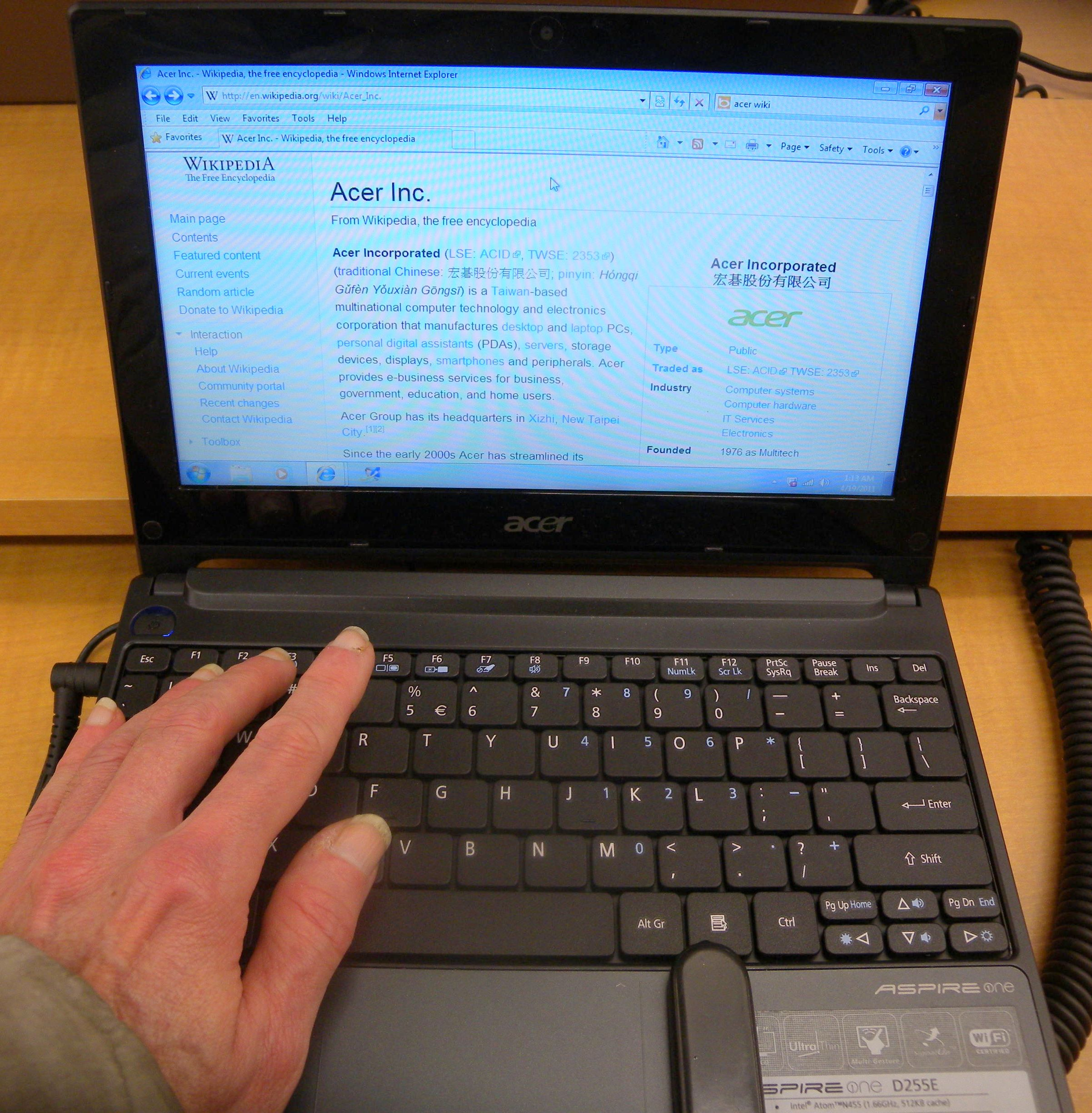 Acer D255E in Best Buy Columbus Circle.